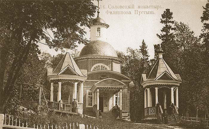 Filippova poustinia